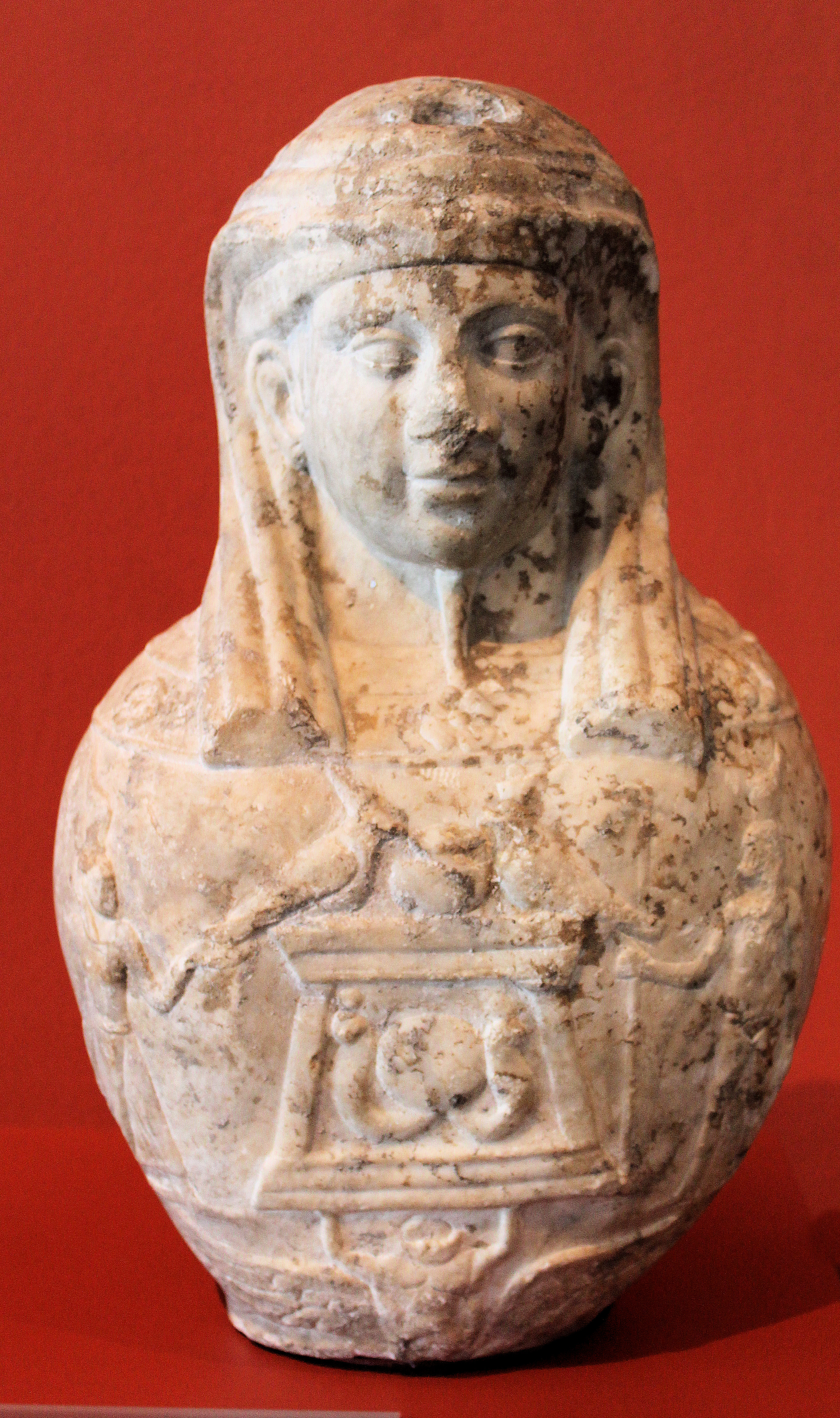 Hildesheim, Roemer- and Pelizaeus-Museum, the Kanopus